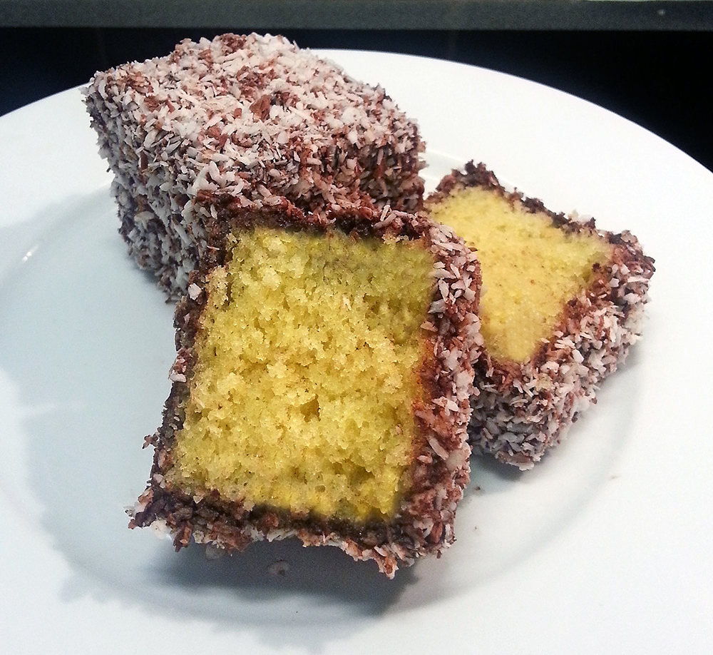 Mocha Flake Lamingtons - created by Andy Cavell, London.